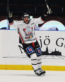 Chad Kolarik during a SHL game against AIK.